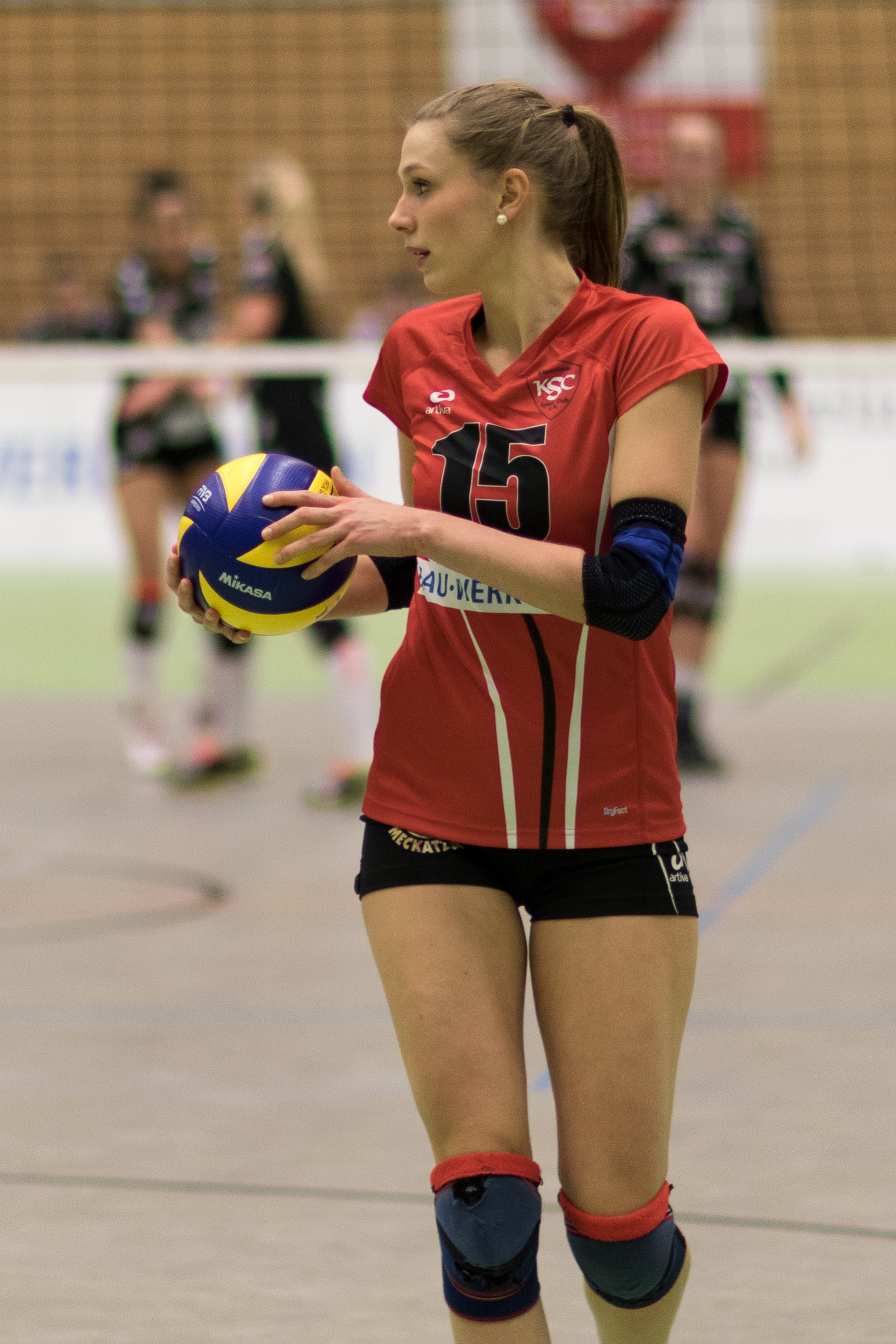 Sophie Schubert, Köpenicker SC